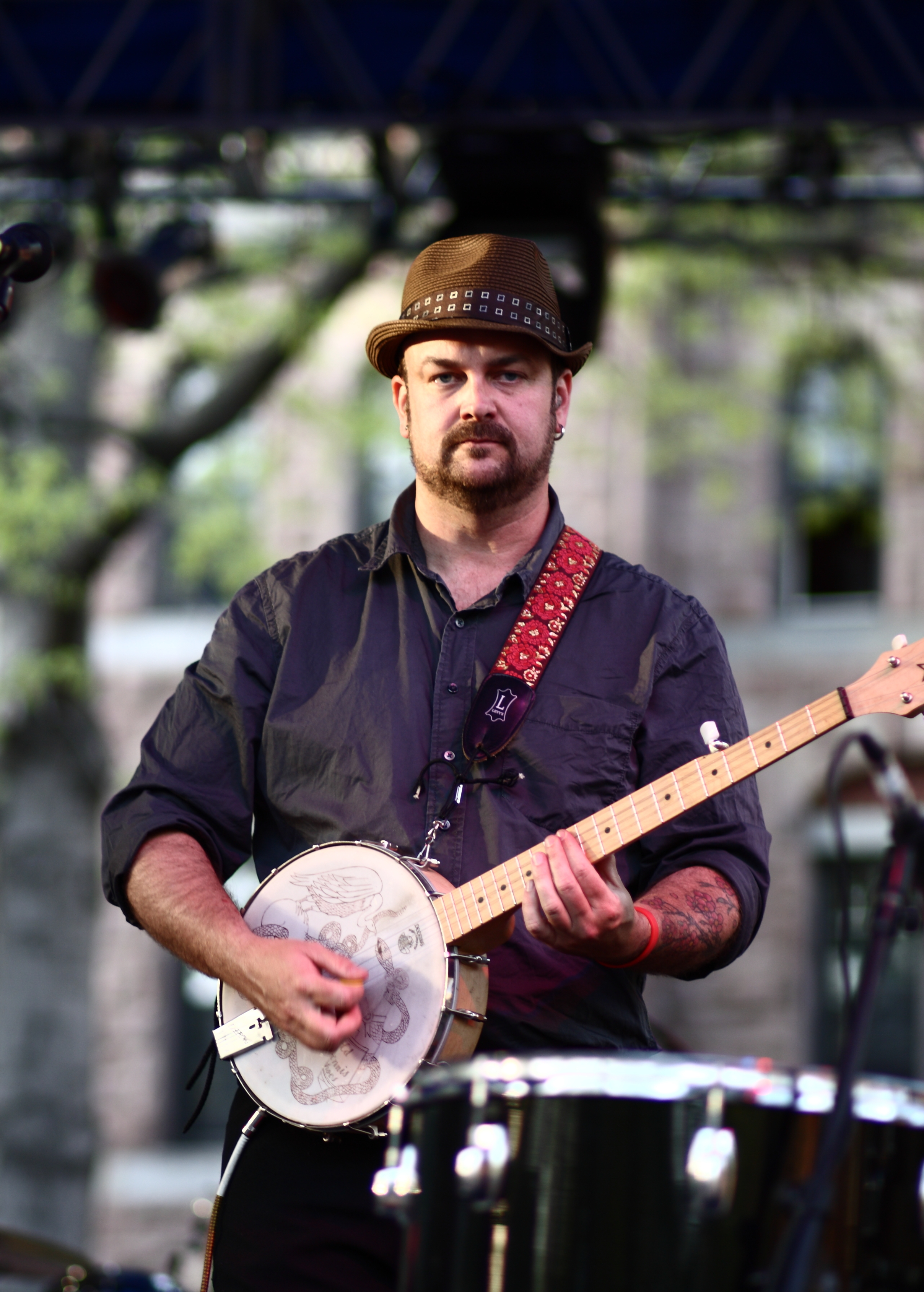 The Decemberists performing at the Yale University "Spring Fling" on 28 April 2009, on Yale's Old Campus. Part of a larger set on Flickr: The Decemberists, 28 April 2009